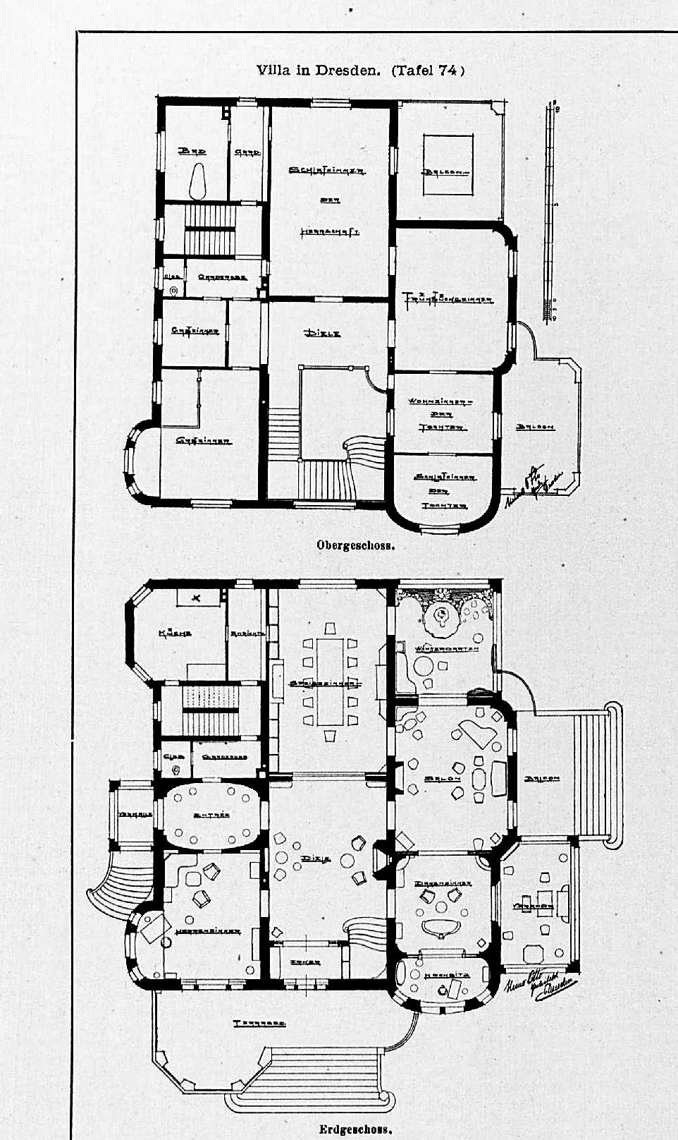 Villa_in_Dresden_Stübelallee_21_Gesamtansicht_Architekt_Heino_Otto_Dresden,_Tafel_74,_Grundriss.jpg